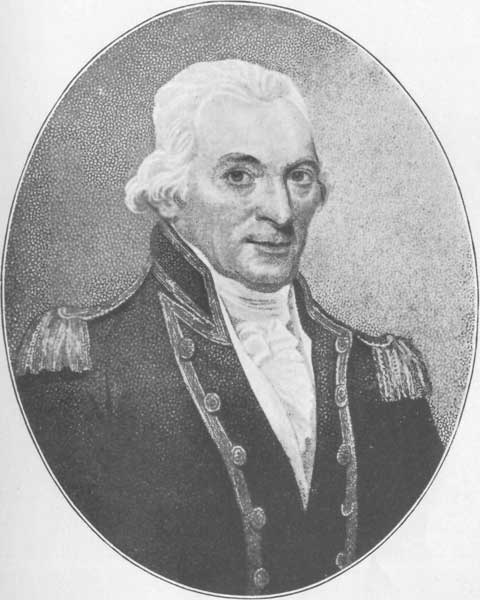 John Hunter, Royal Navy officer and 2nd Governor of New South Wales.